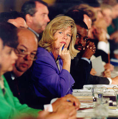 Tipper Gore, wife of then Senator and later Vice President Al Gore; sitting with LeVar Burton.